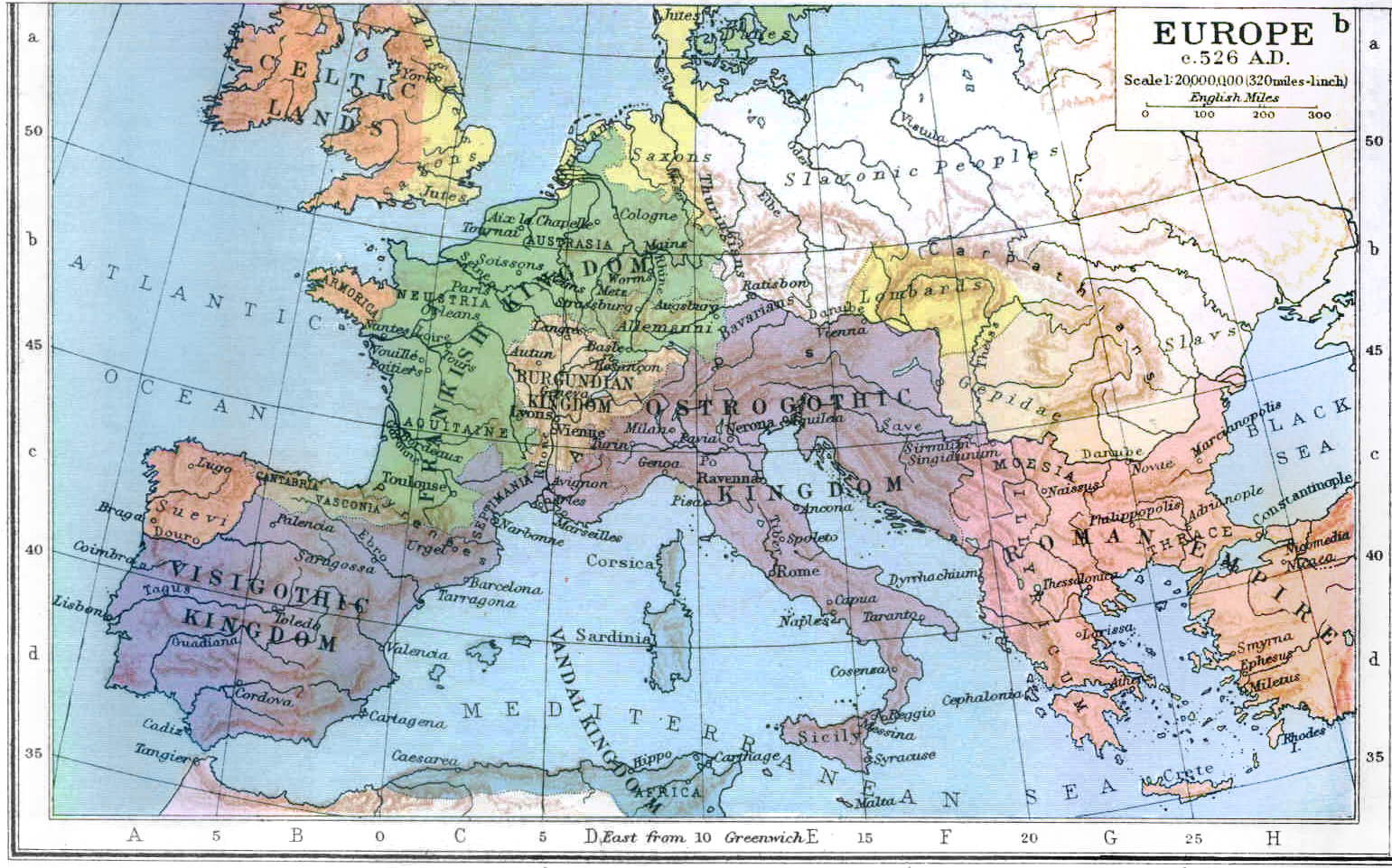 Europe in 526